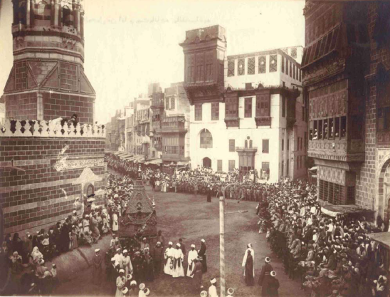 holy city of Makkah in 1880